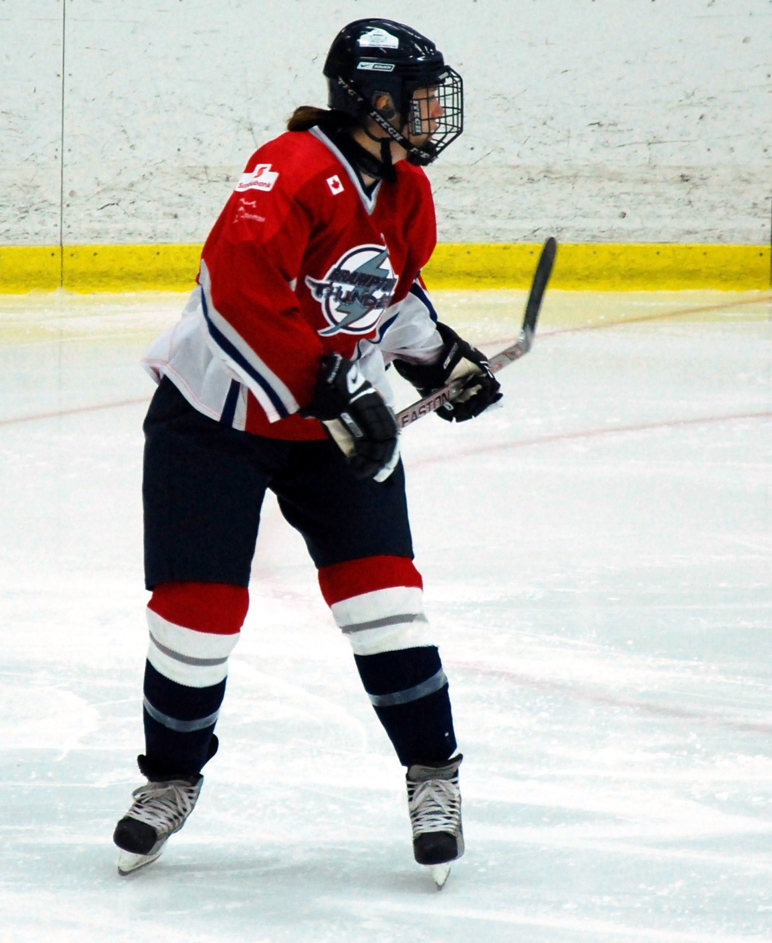 Pictures from Ottawa Senators games during the 2008/09 CWHL season